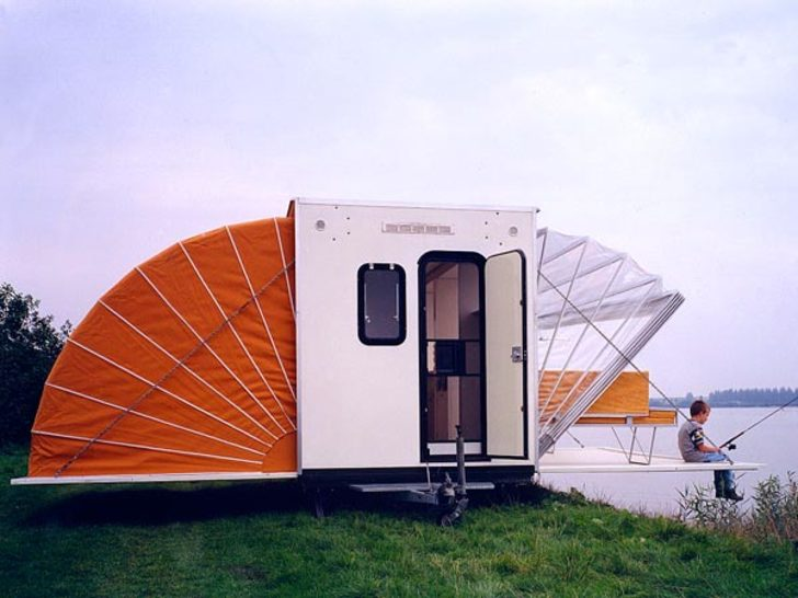 De Markies.